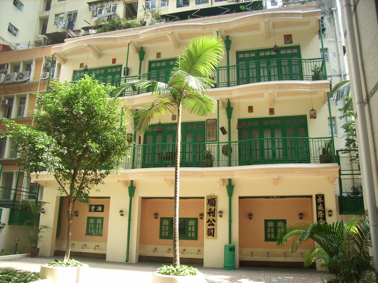 灣仔舊區街道 Wanchai old streets, Hong Kong. (A1 Wong East).